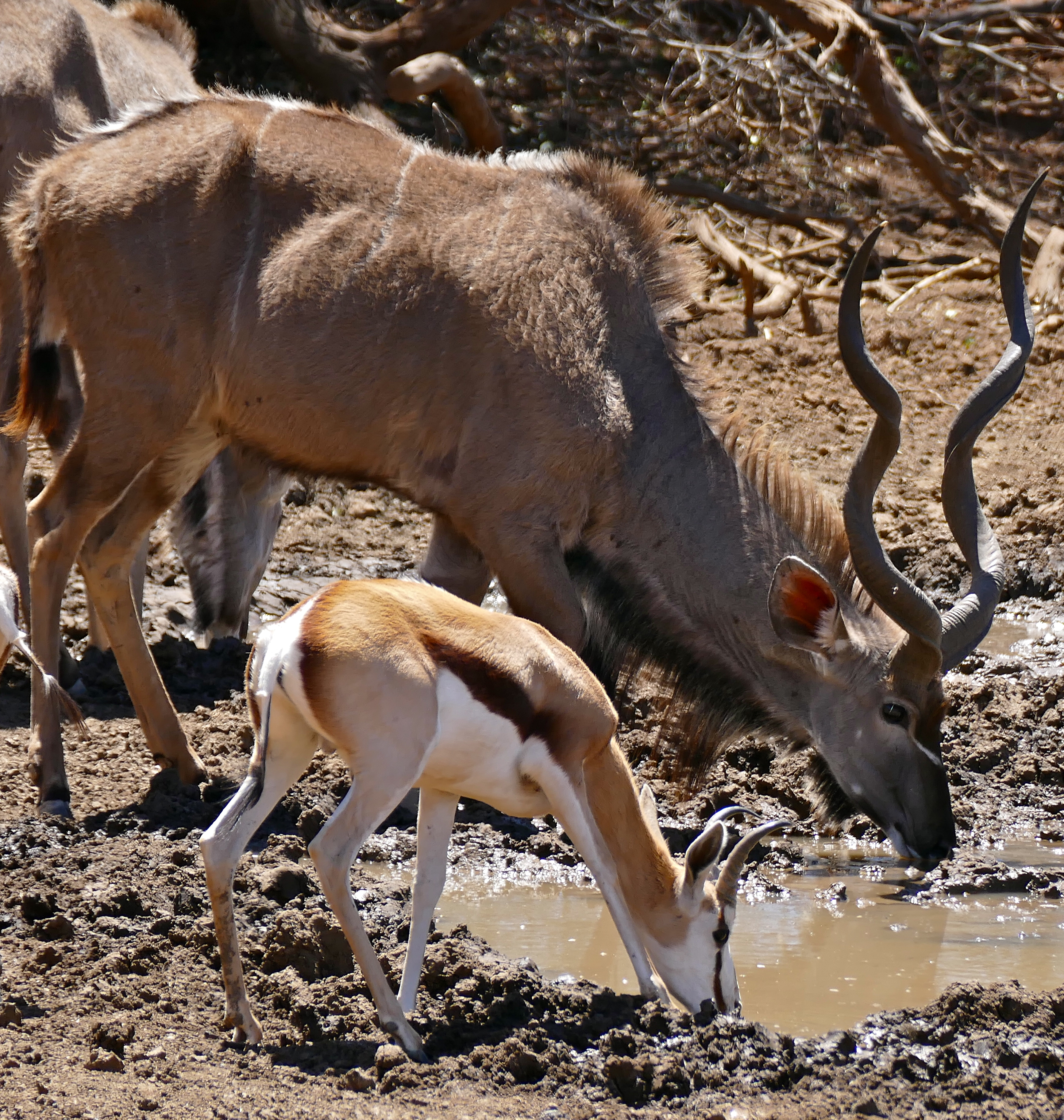 Stofdam Hide, Mokala NP, Northern Cape, SOUTH AFRICA